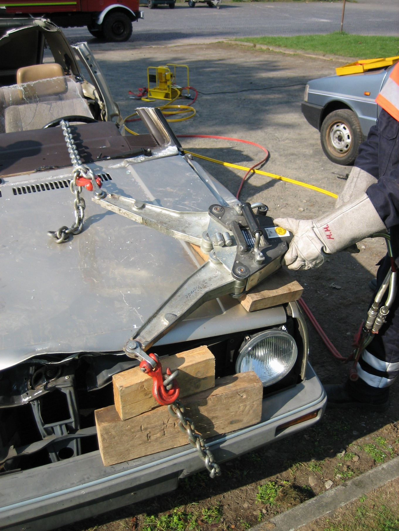 the use of spreader, pulling away the steering column from the patient (this practice is only recommended in exceptional cases but taught and used) photographer: Magnus Mertens place: Goettingen, Germany date: September 2005 license